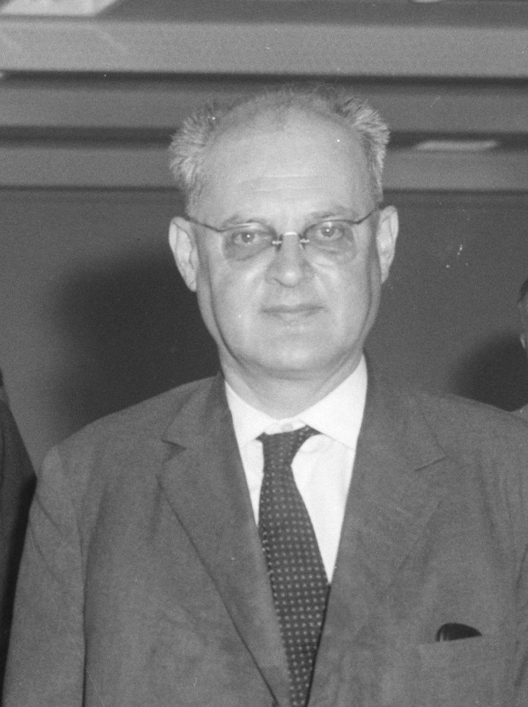 Vasja Pirc at IBM international chess tournament Amsterdam, 1964